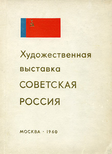 Cover of the catalog of the "Soviet Russia" Art Exhibition of 1960